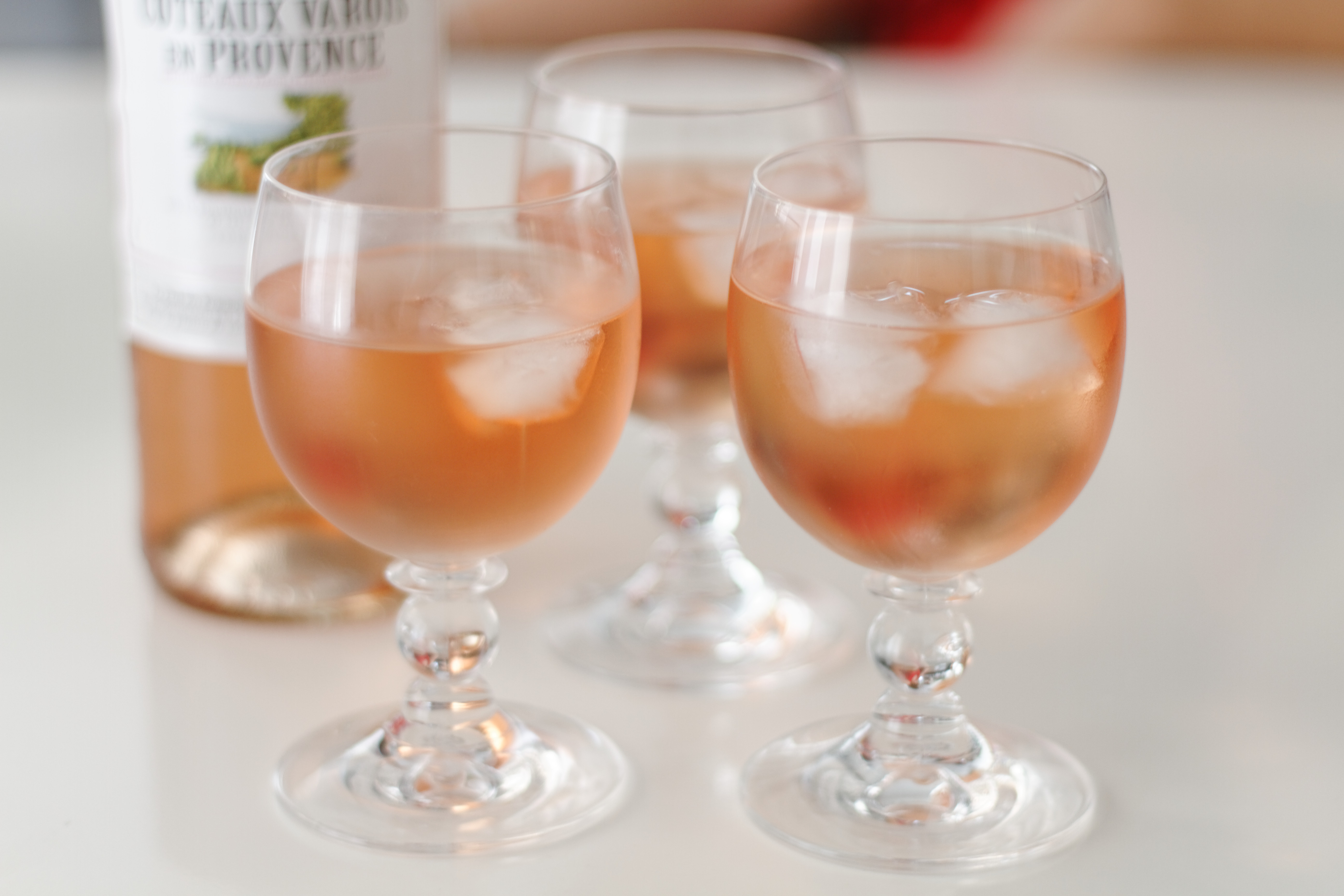 A rose wine from the Coteaux Varois in the Provence wine region of France with ice cubes in it.